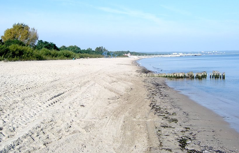 A beach in Gdansk-Brzezno (Poland)